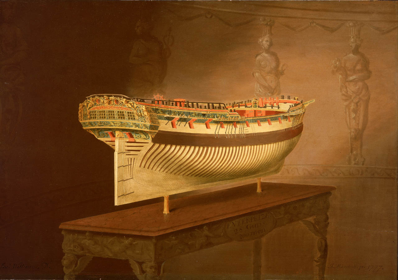 Painting of an fictional model of the HMS Enterprise